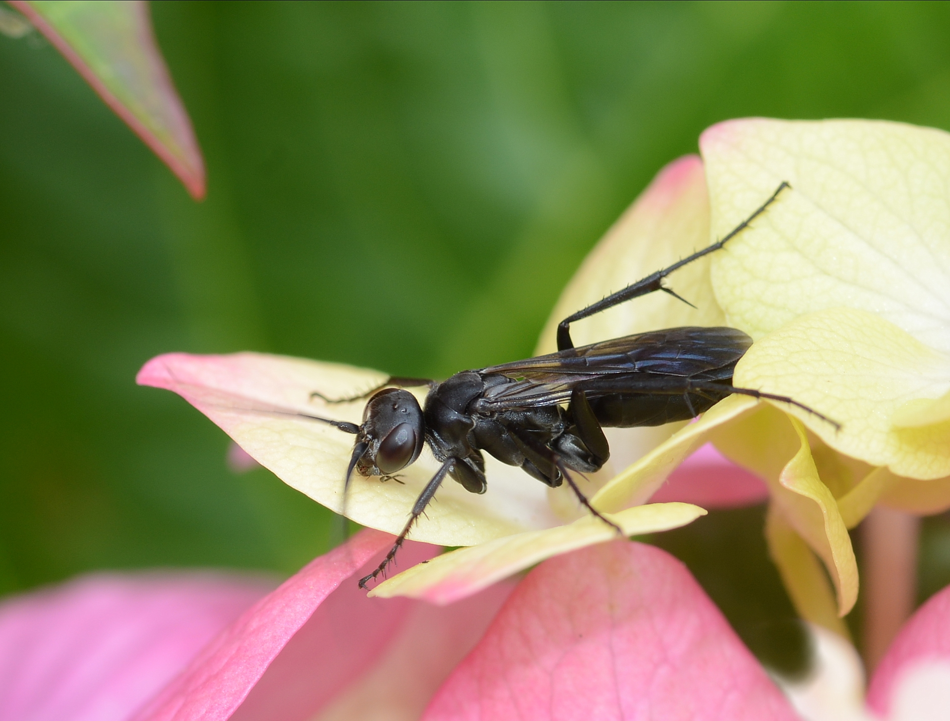 Spider hunting wasp (cf. Anoplius nigerrimus). Found in Porto Covo, Portugal